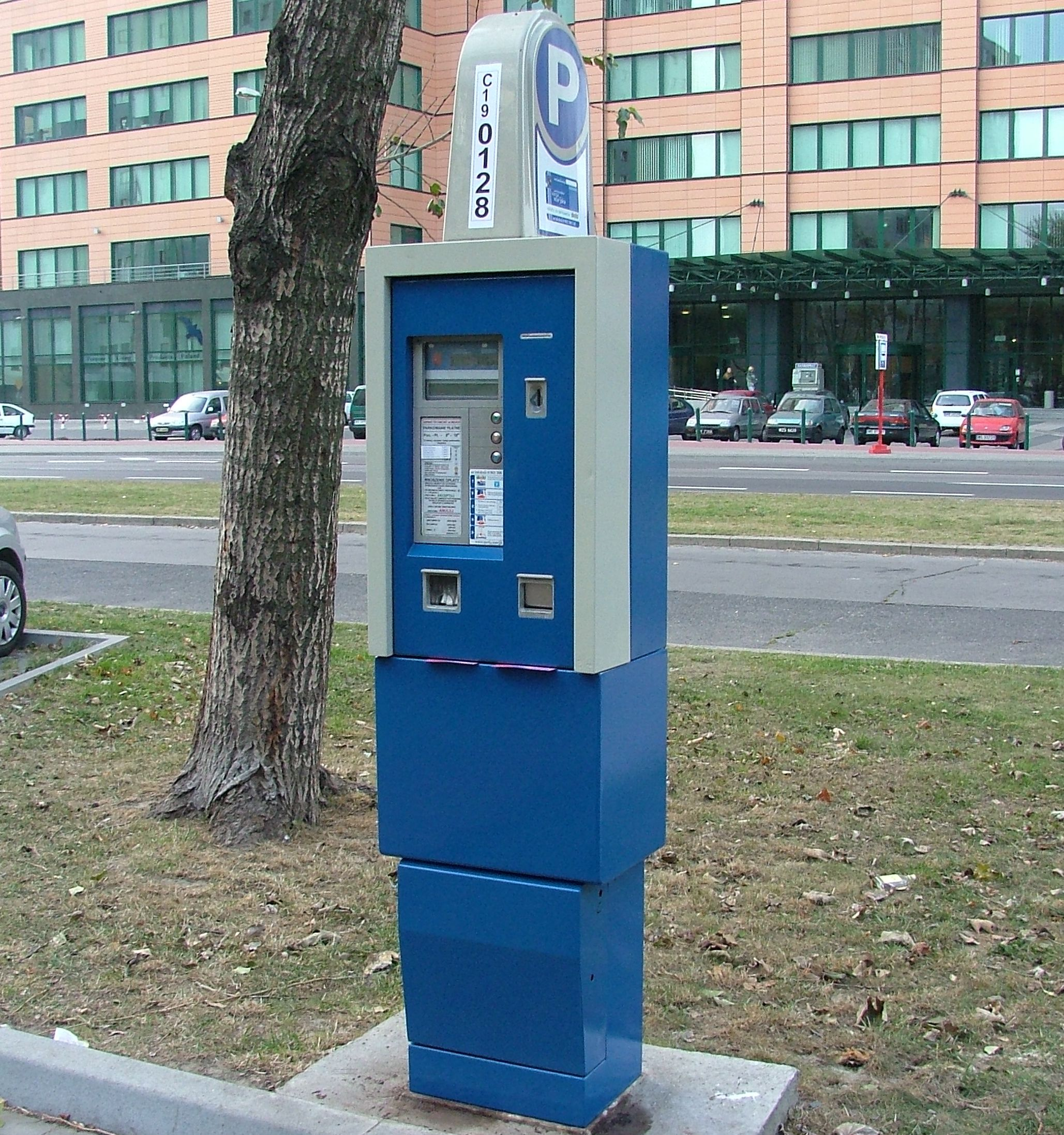 Poland, Warsaw, parking meters